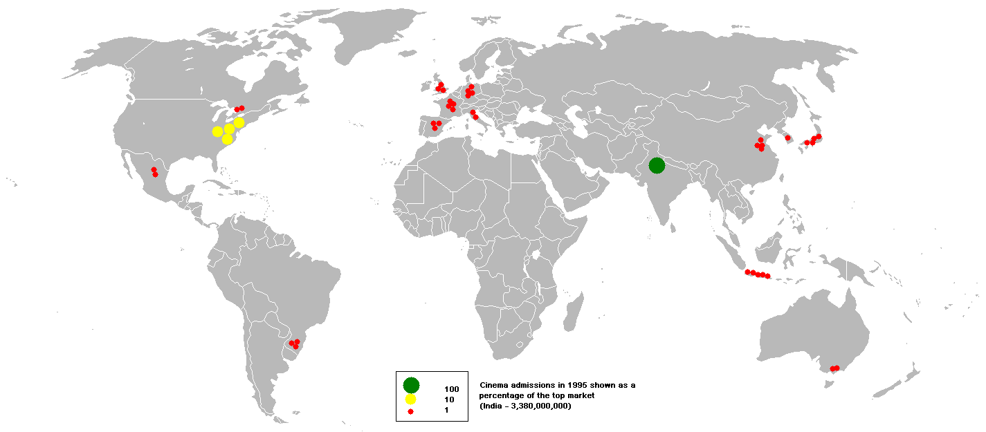 This bubble map shows the global distribution of cinema admissions in 1995 as a percentage of the top market (India - 3,380,000,000). This map is consistent with incomplete set of data too as long as the top market is known. It resolves the accessibility issues faced by colour-coded maps that may not be properly rendered in old computer screens. Data was extracted on 30th June 2007 from Based on Image:BlankMap-World.png